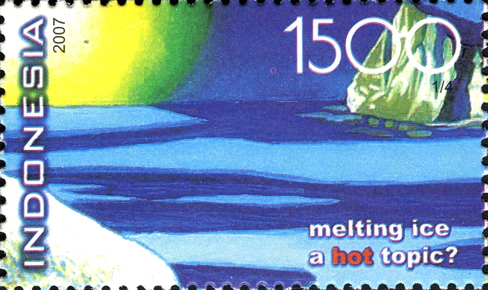 Stamps of Indonesia